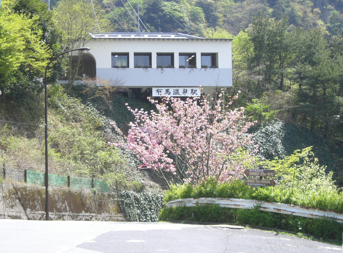 Arima Onsen Station of Rokko-Arima Ropeway, Mount Rokko